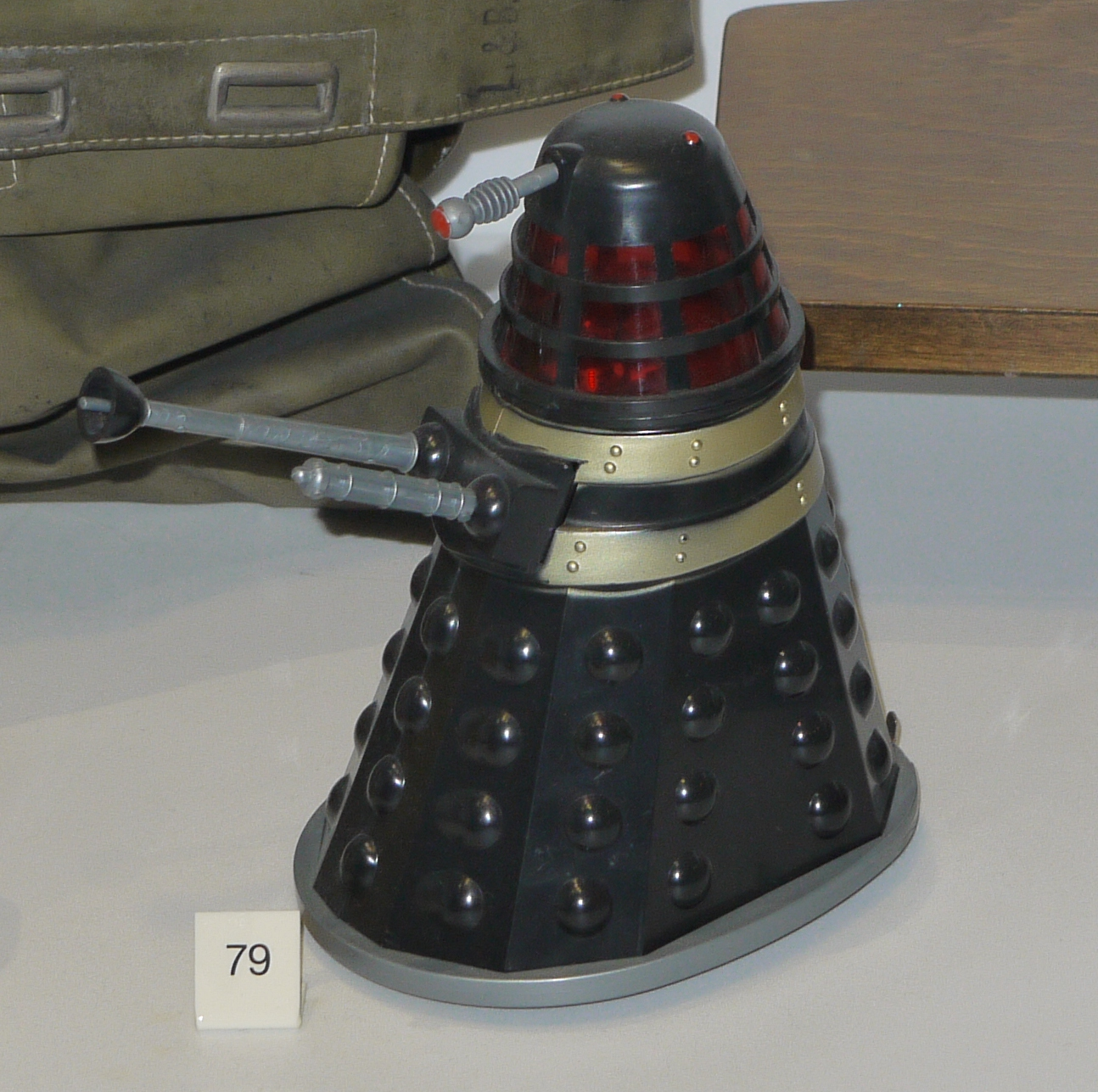 Photo of a black and gold plastic dalek model on display at the science museum